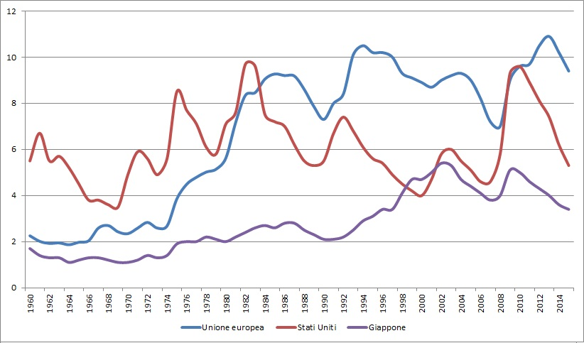 Unemployment rates in EU, USA and Japan (1998-2010)